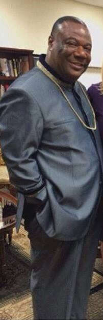 The Archbishop Nicholas Duncan-Williams along with Pastor Paula White and Bishop TD Jakes, two christian leaders who are his dear friends